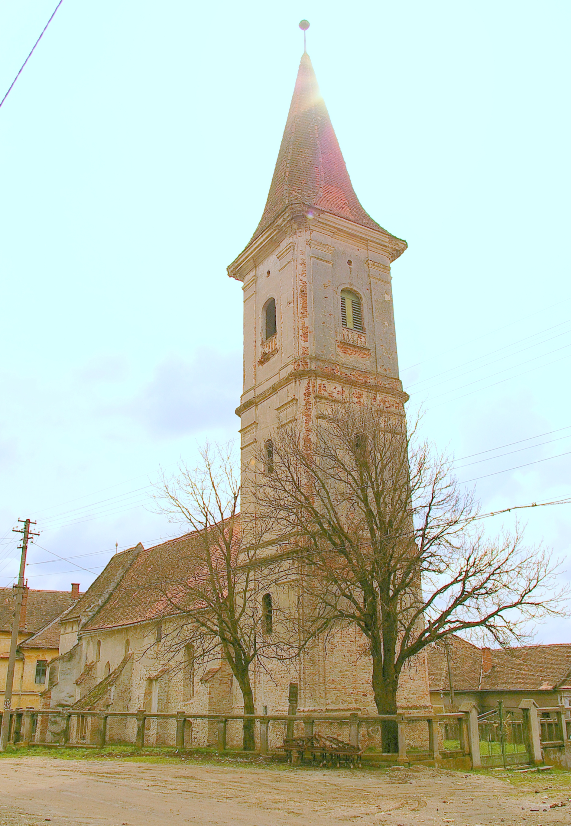 Lutheran church in Șeica Mare, Sibiu county, Romania